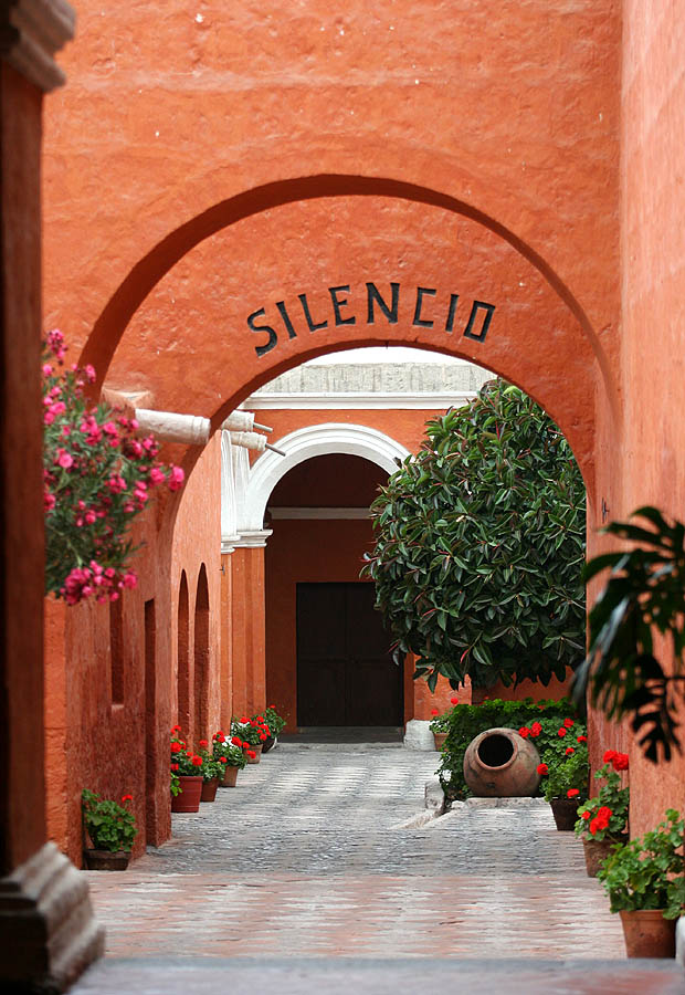 One of the many alleys at the Santa Catalina Monastery, Arequipa, Peru